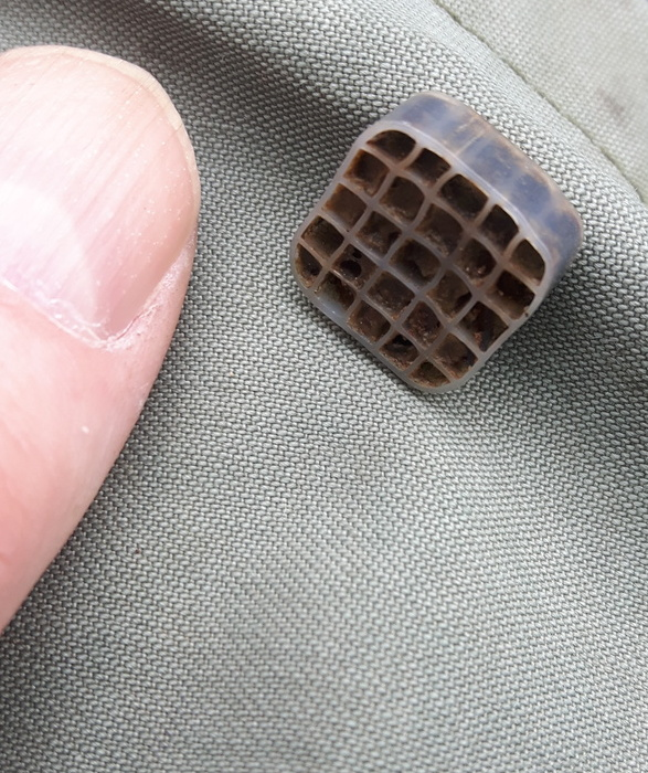 Biofilm carrier found in Norwegian fjord